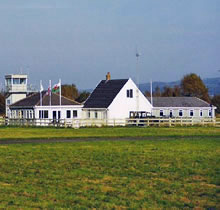 Pembrey Airport